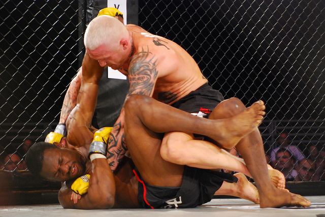 Jim Wallhead picture (originally titled "Jim Wallhead def. Shaun Lomas